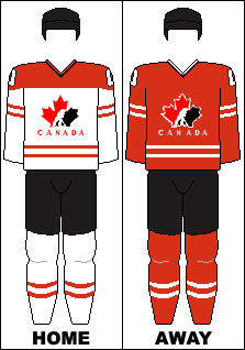 The home and away jerseys of the Canadian ice hockey team used at the IIHF World Championships.